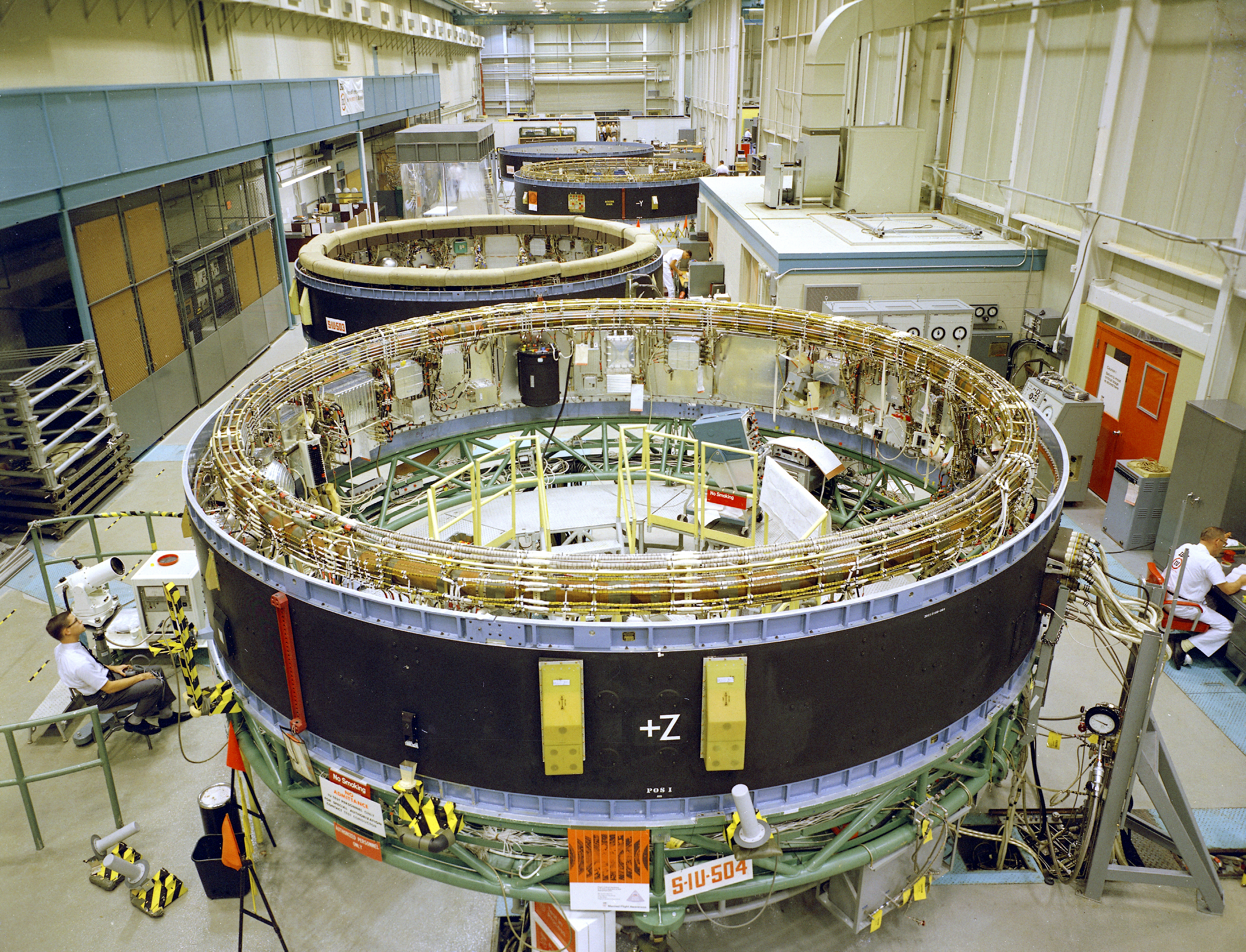 Four IUs in the IBM plant at Huntsville. IU-504 is closest to the camera, IU-503 behind that, and perhaps IU-505 the fourth in line. The third one back has a Y+ marking, indicating that it is IU-205 or IU502 or a subsequent model.